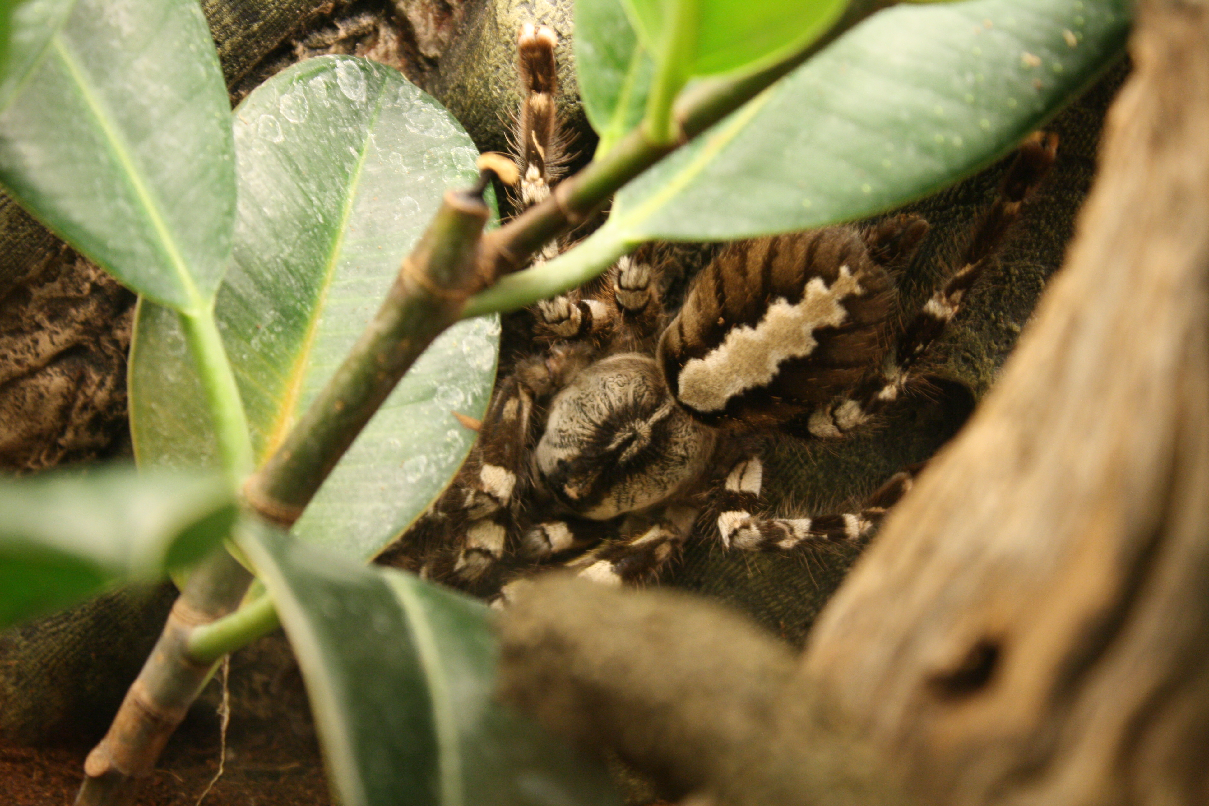 Indian Ornamental Tarantula (Poecilotheria regalis) Wikipedia Loves Art at the Houston Museum of Natural Science This photo of item # [1] at the Houston Museum of Natural Science was contributed under the team name "The_Wookies" as part of the Wikipedia Loves Art project in February 2009. Houston Museum of Natural Science The original photograph on Flickr was taken by andytang20—please add a comment to the original Flickr page whenever a use has been made on Wikipedia or another project. Project galleries on Flickr: this institution, this team